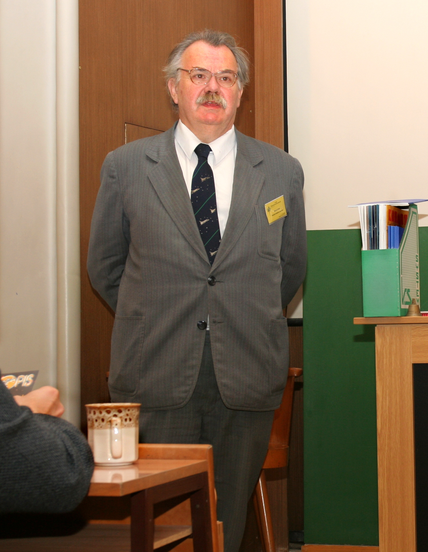 Czech astronautics propagator Marcel Grün at the 17th Congress of the Czech astronomical society